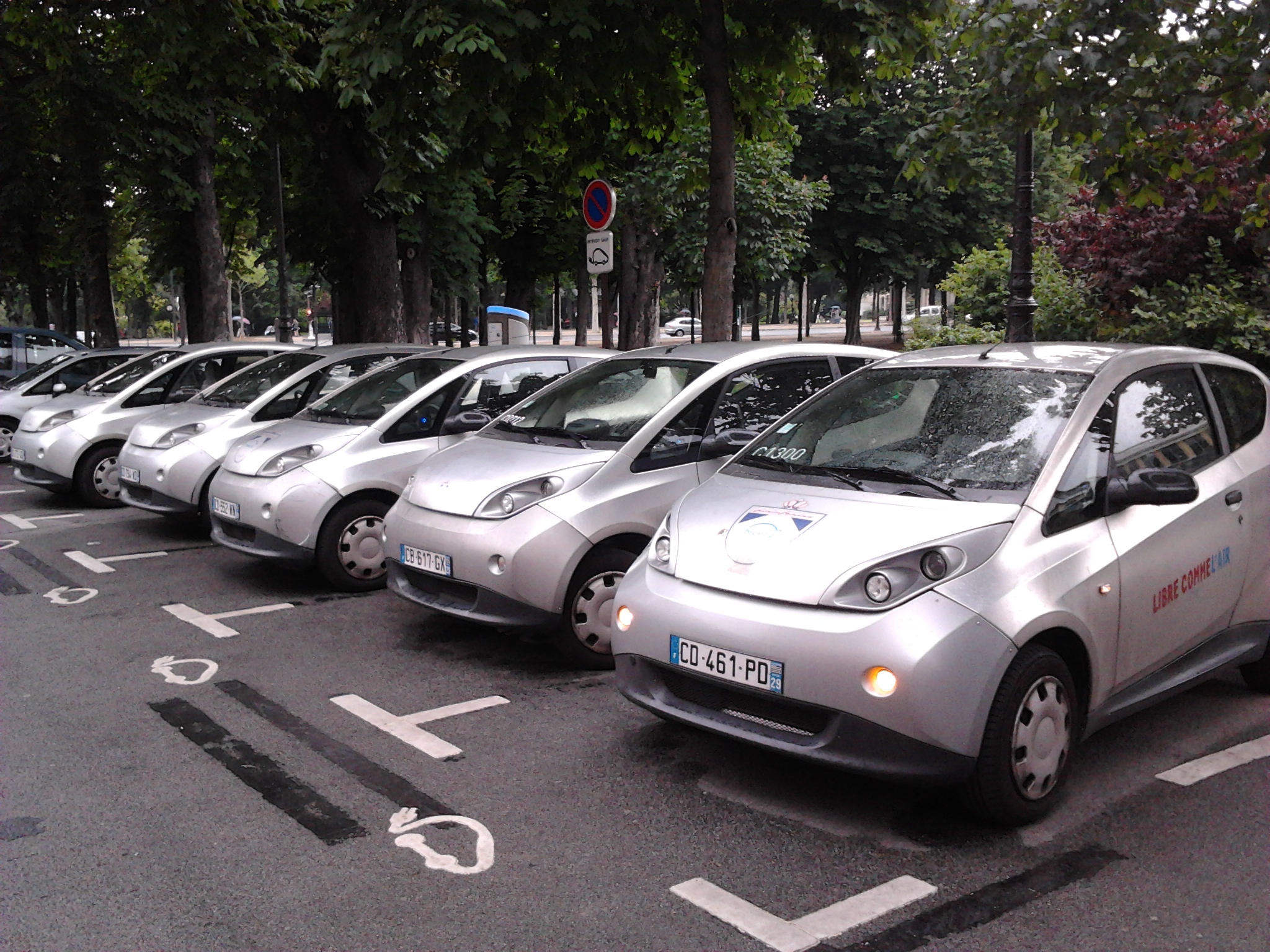 Autolib carsharing station in Paris